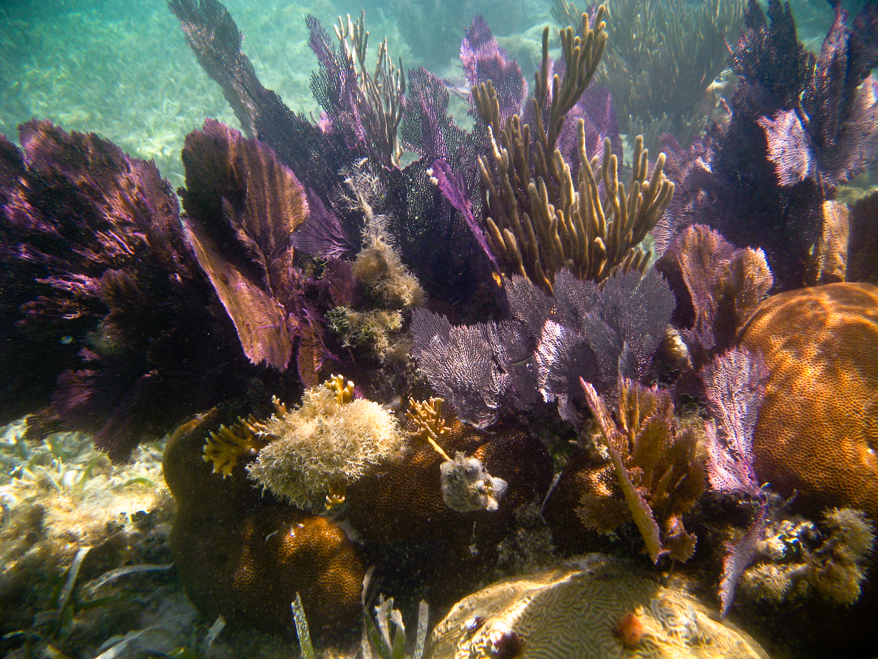 Submerged resources of Dry Tortugas National Park. National Park Service Photo taken by John Dengler